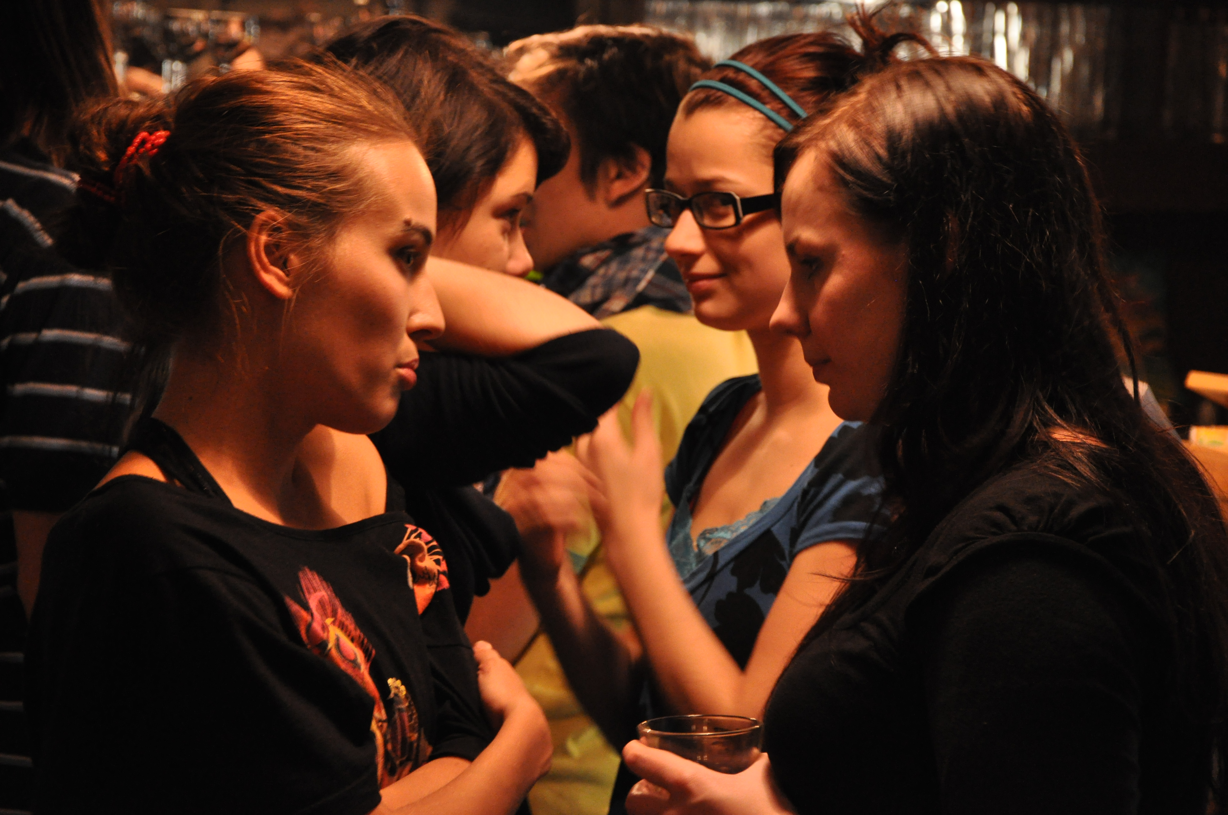 Czech actresses from the left: Tereza Voříšková, Ivana Korolová, Marika Šoposká and Jana Birgusová